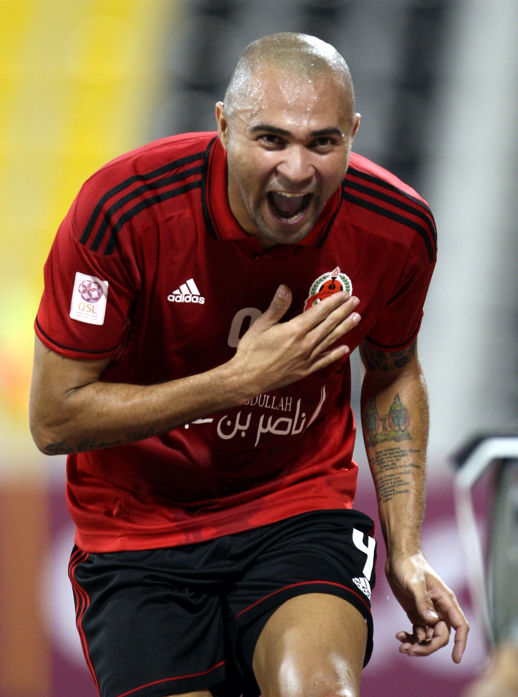 Al Rayyan's Afonso Alves celebrates his goal against Umm Salal during their Qatar Stars League match.